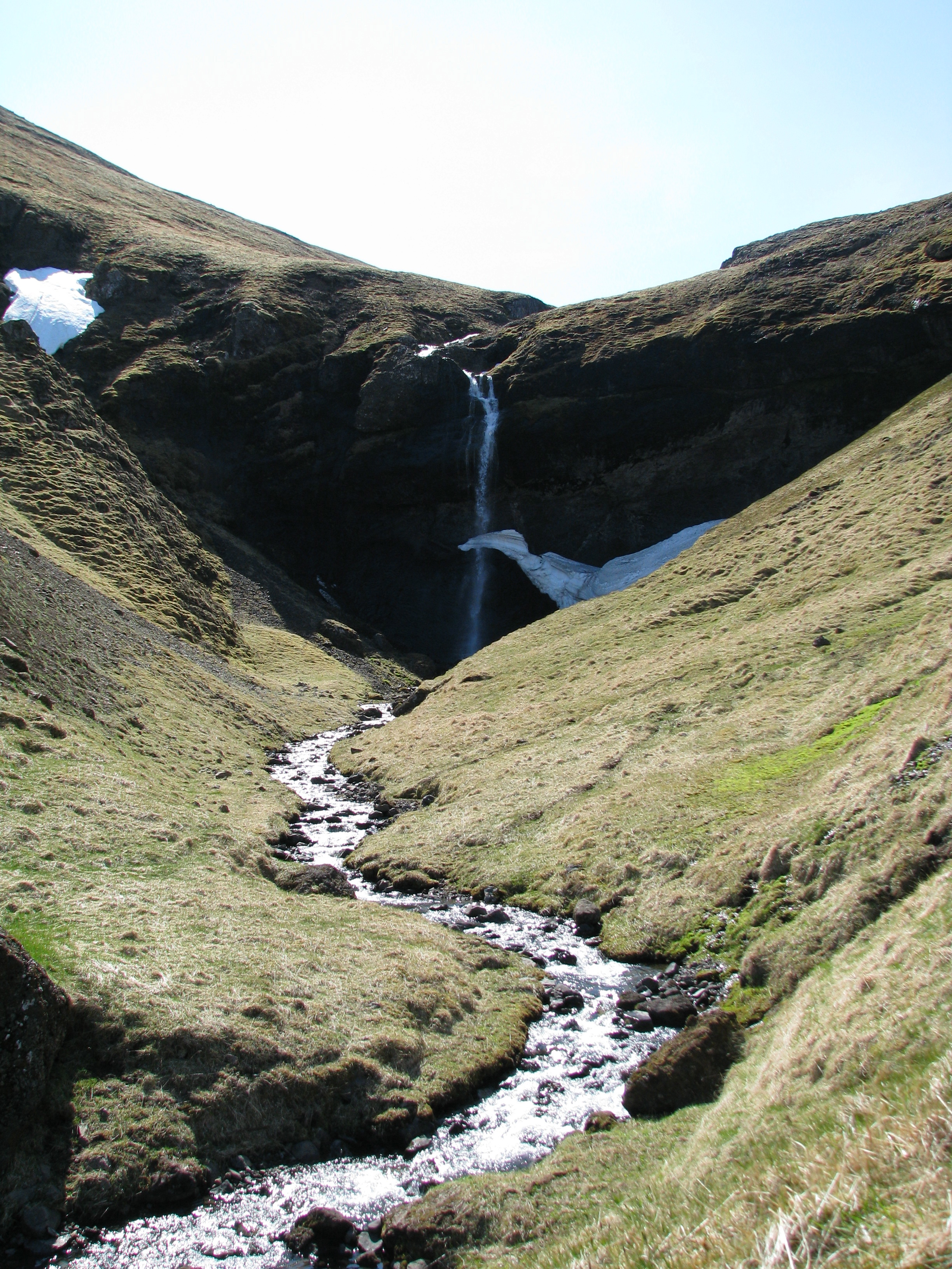 The Svartifoss, a waterfall near Kollafjörður fjord, Iceland